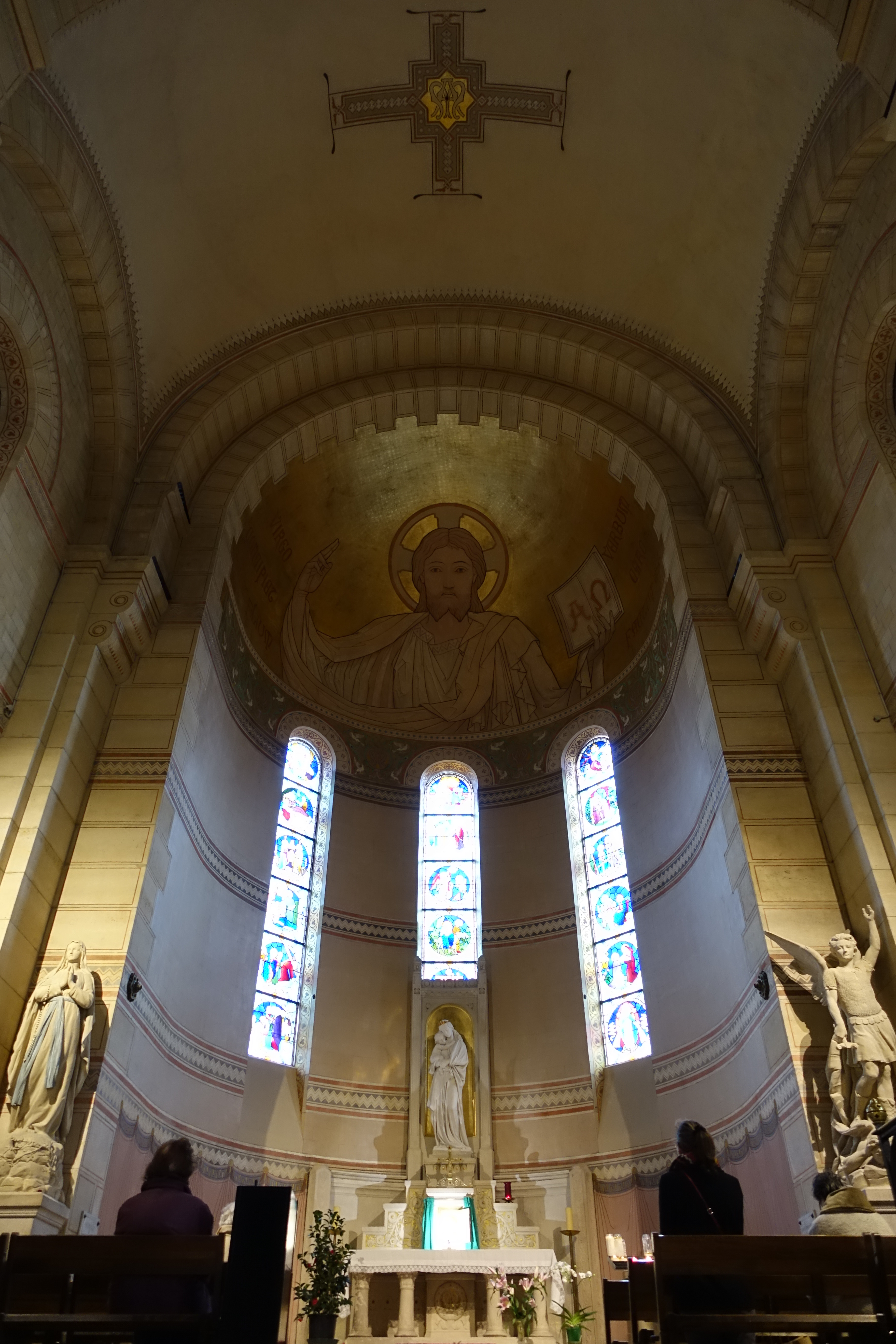 Église Notre-Dame-d'Auteuil, a church on the Auteuil hill in the 16e arrondissement de Paris. Address: 4 Rue Corot, 75016 Paris, France.